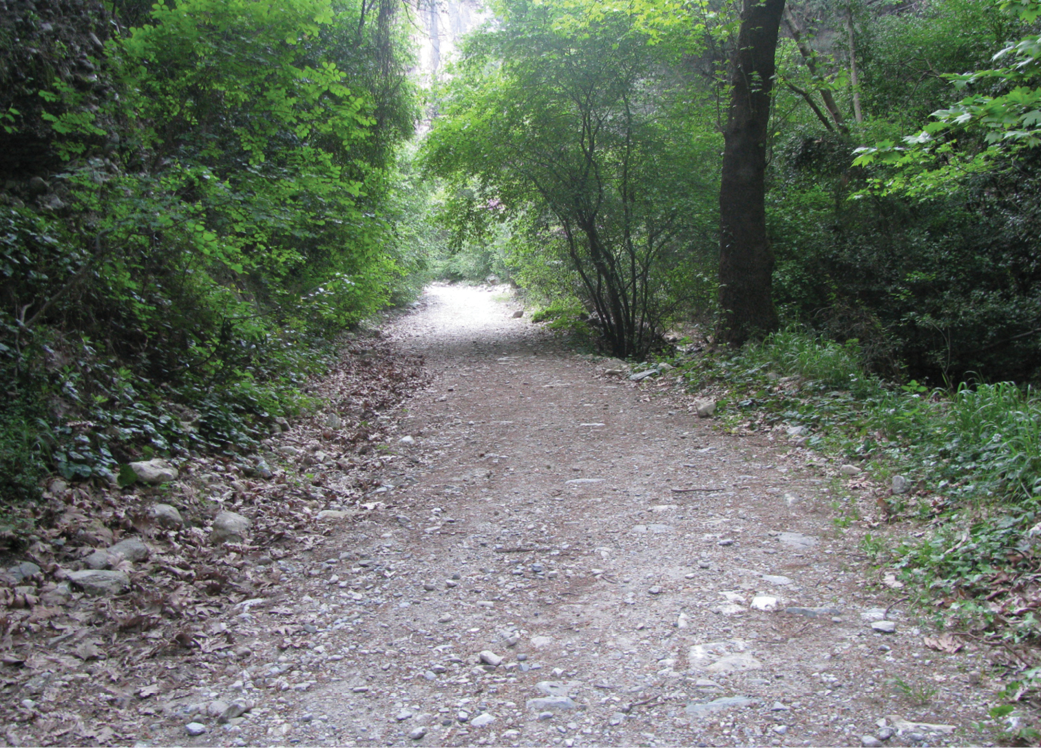 habitat in Dilek Peninsula-Büyük Menderes Delta National Park